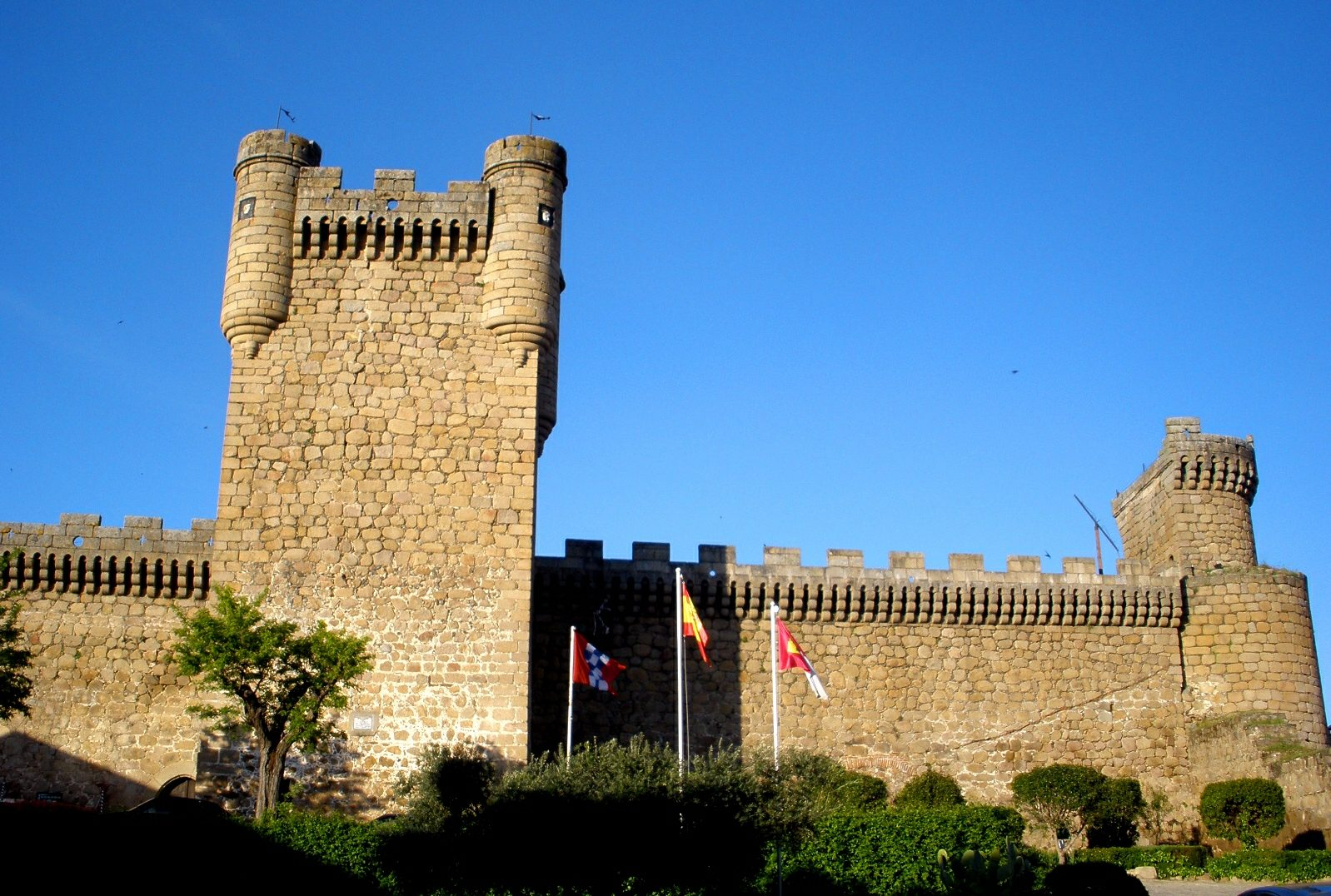 Castillo de Oropesa (provincia de Toledo, Castilla-La Mancha, España)